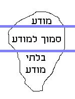 The hebrew version of topographic model by Sigmund Freud.